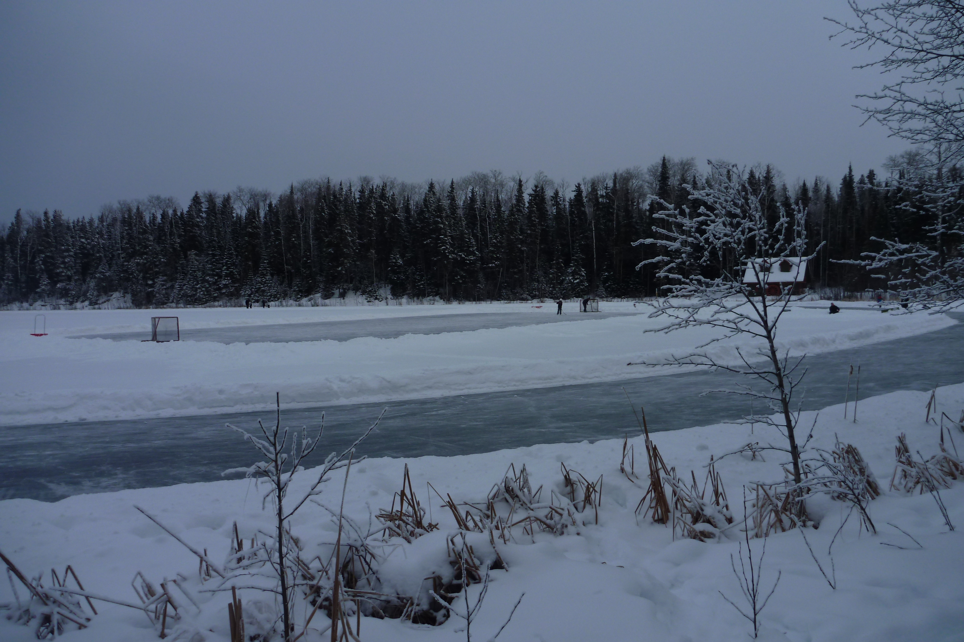 Ice rink at Elk Ridge